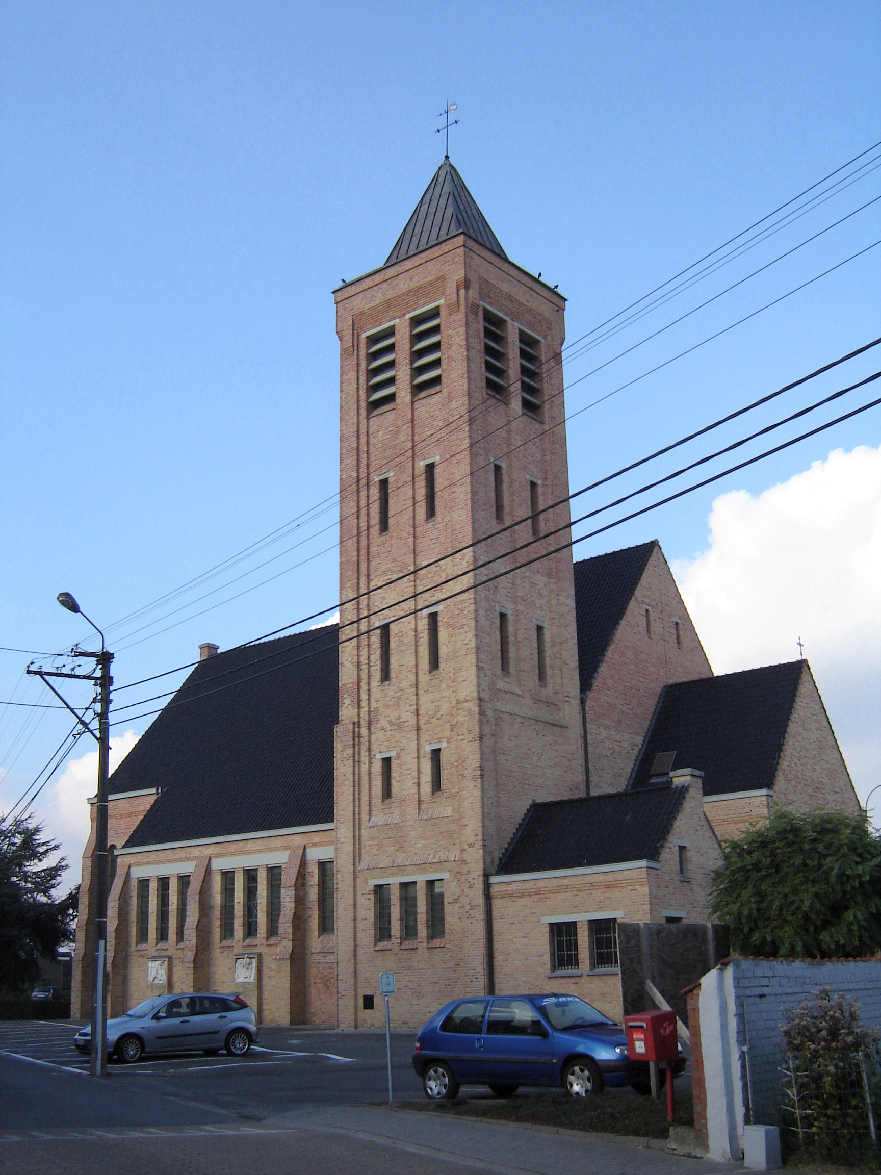 Church of Saint John the Baptist in Sint-Jan. Sint-Jan, Wingene, West Flanders, Belgium